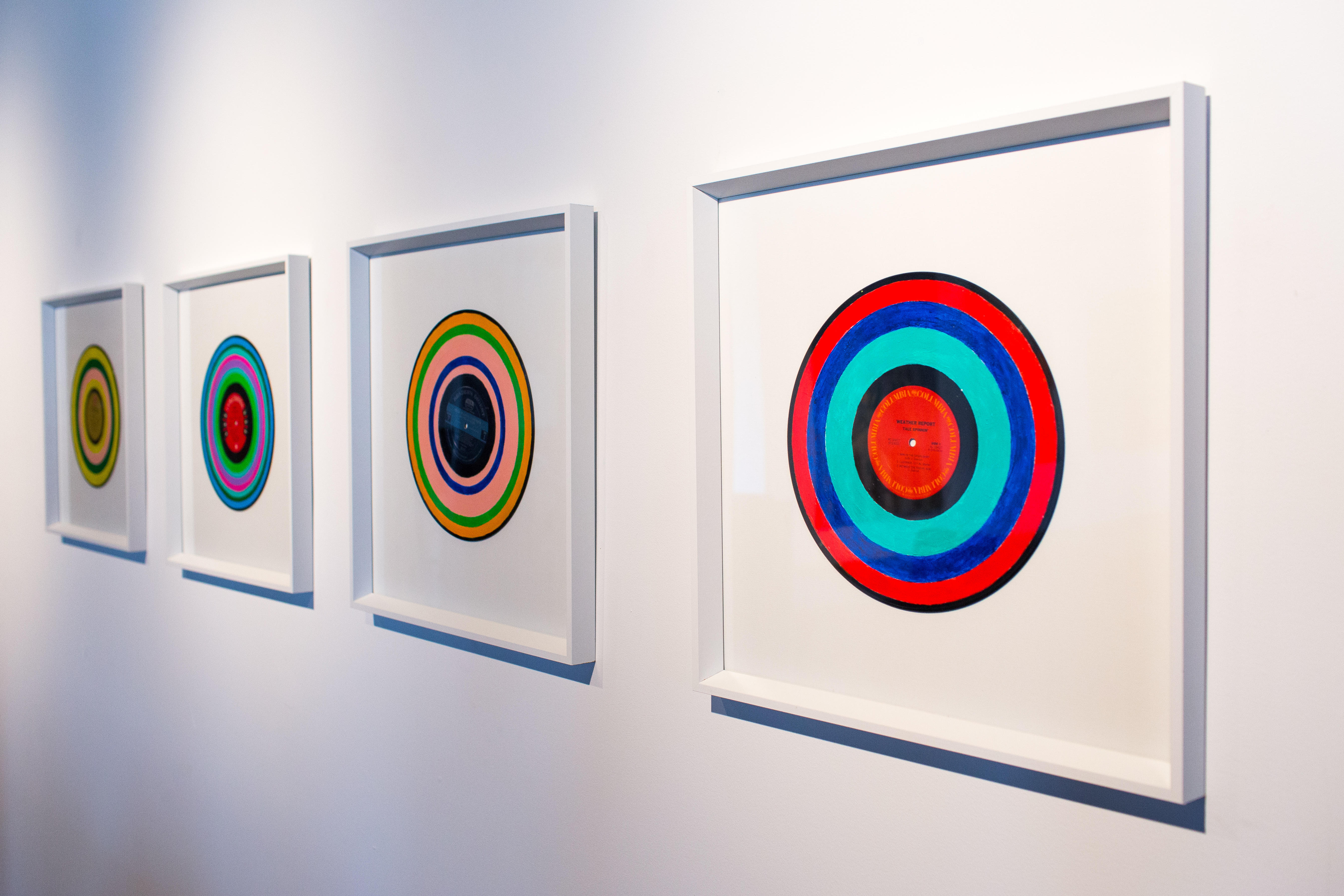 Sonochromatic Records by Neil Harbisson. Exhibited in New York.